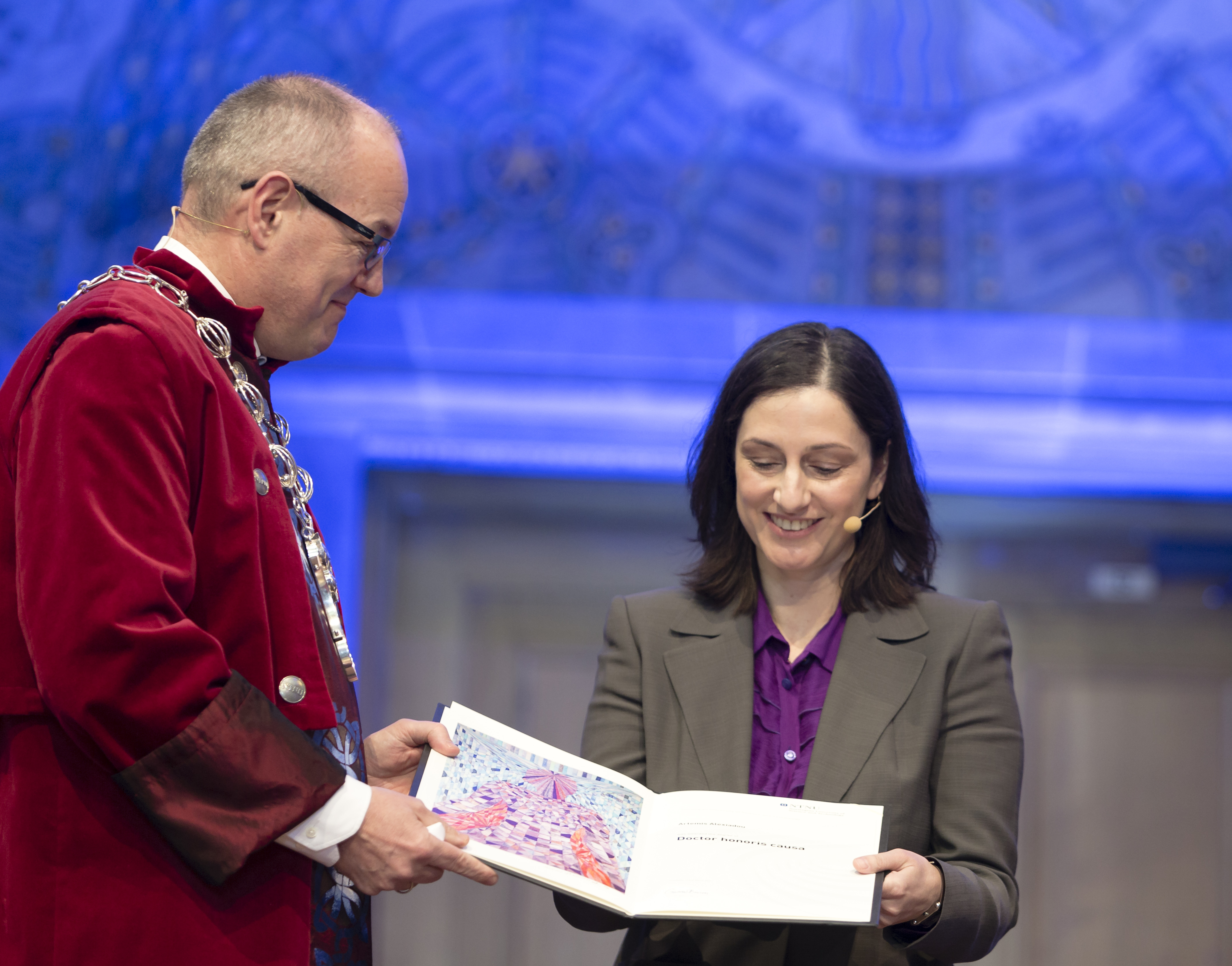 The greek linguist Artemis Alexiadou (right) with rector Gunnar Bovim at the occasion where she received her honorary doctorate at NTNU in Trondheim